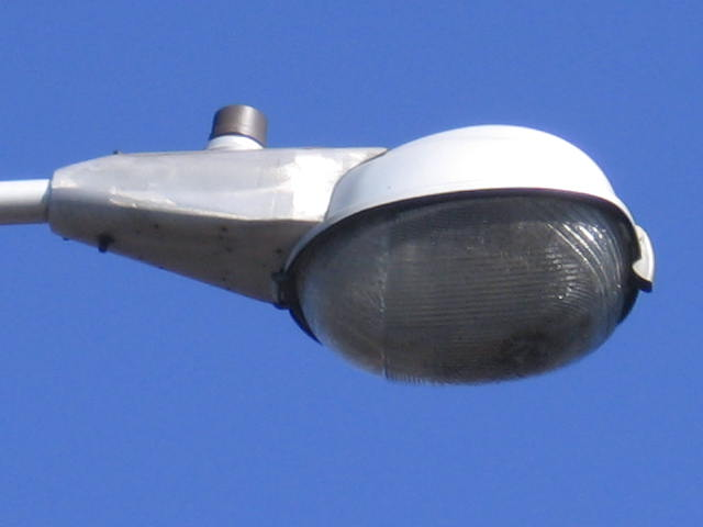 History of street lighting: General electric, Form 400 Power Pack